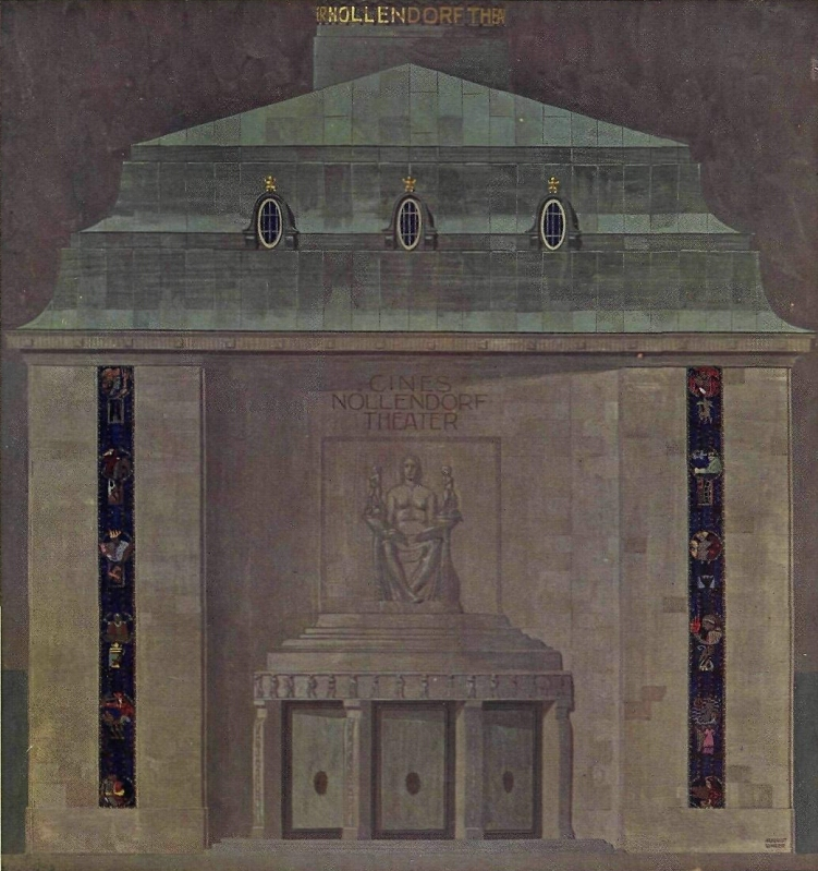 The facade of the Cines Nollendorf-Theater cinema, 4 Nollendorfplatz, Berlin. Artwork (dated 1913) by August Unger (1869 - 1945) (signed at lower right of drawing). The main architect was Oskar Kaufmann (1873 - 1956), the carved figure over the entrance is by Franz Metzner (Bildhauer) (1870 - 1919), and the stained glass (also designed by Unger), was possibly executed by Gottfried Heinersdorff (1883 - 1941).